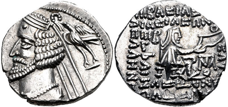 Drachm of Phraates IV, Mithradatkart mint.